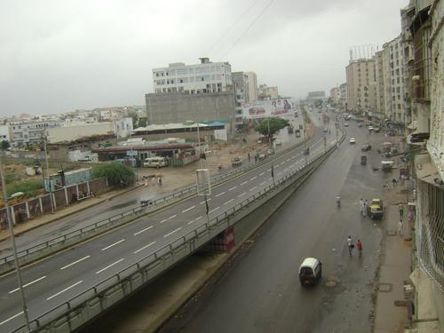 GULISTAN-E_JAUHAR This is a photo of a monument in Pakistan identified as the SD-P-19